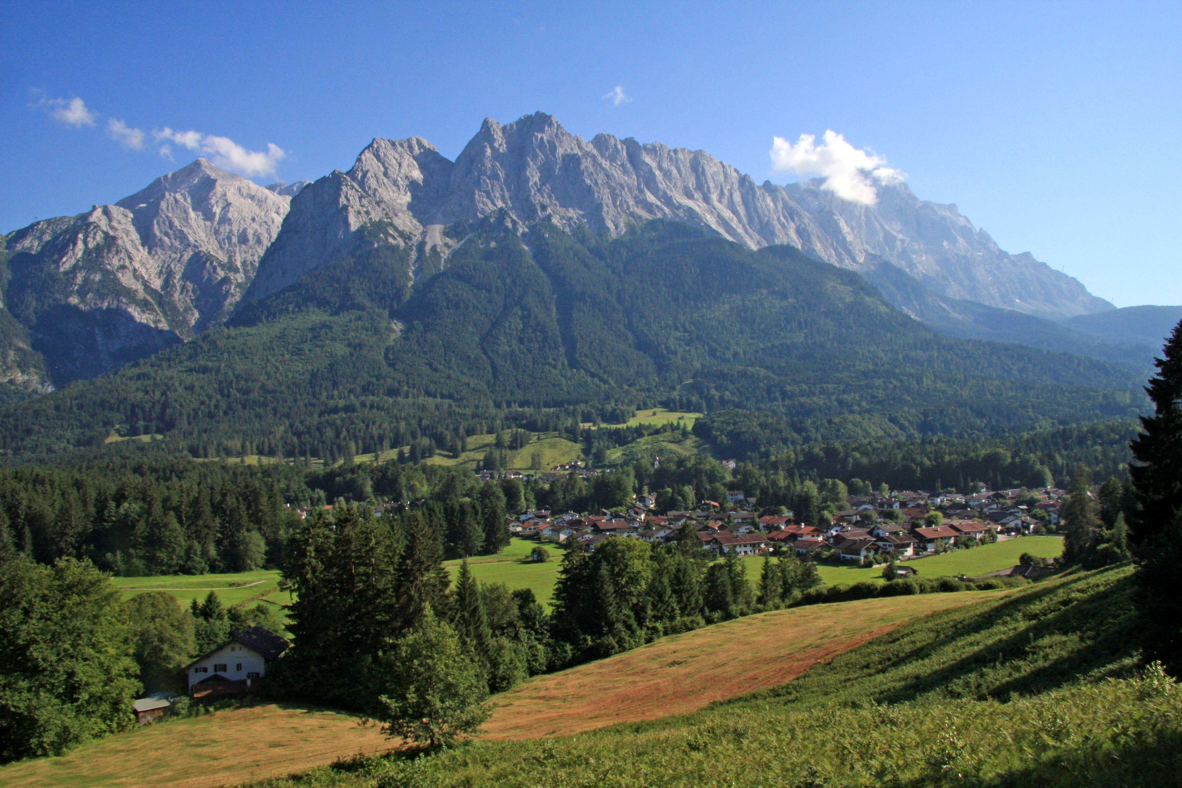 The Bavarian village Grainau with the mountains (from left) Alpspitze, kleiner Waxenstein, großer Waxenstein and Zugspitze in the background